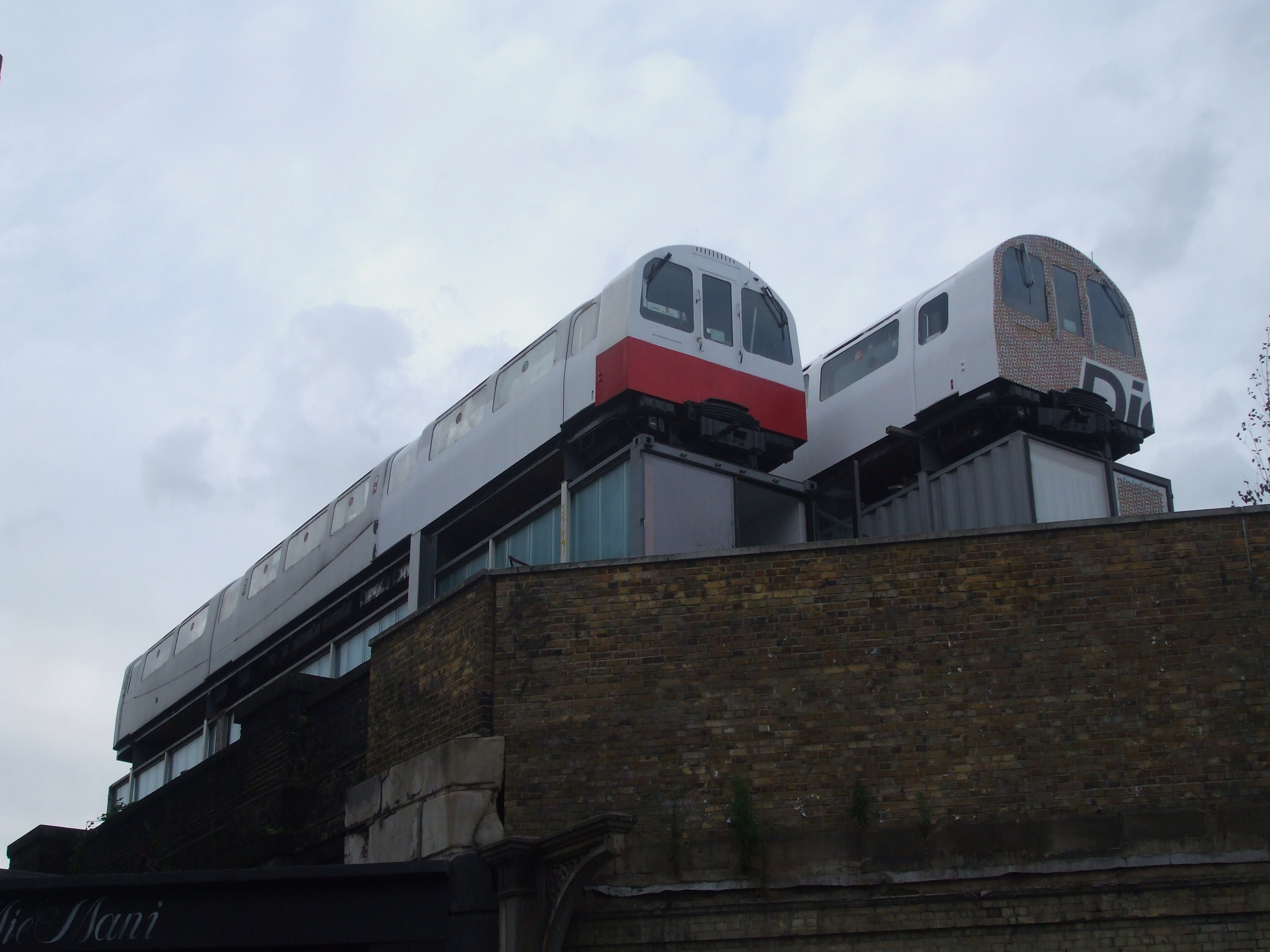 Redundant London Underground 1983 tube stock cars used as artists' studios atop disused portion of the Broad Street Viaduct off Great Eastern Street, Shoreditch